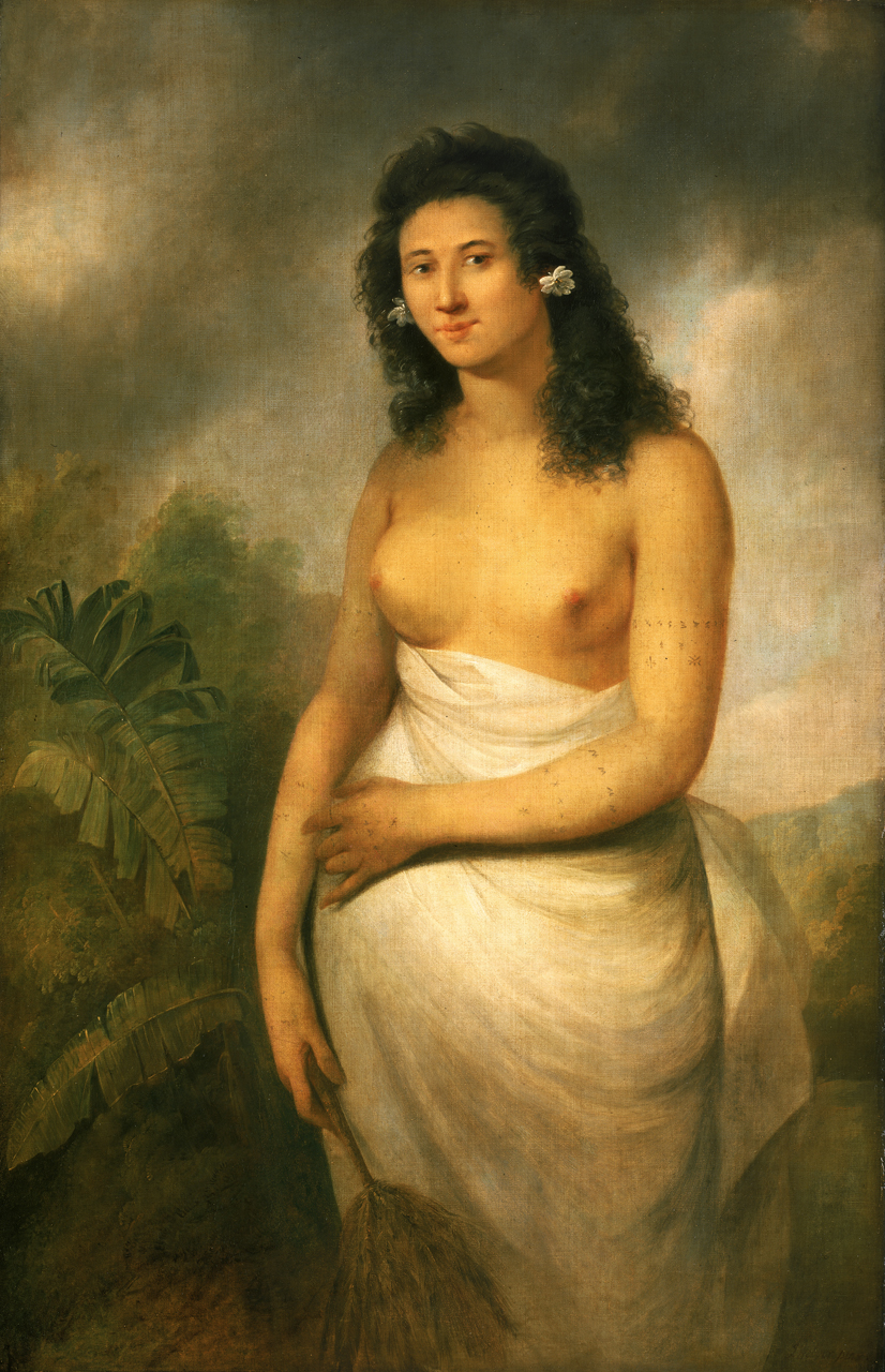 Portrait painted in 1777 on Captain Cook's Last Voyage